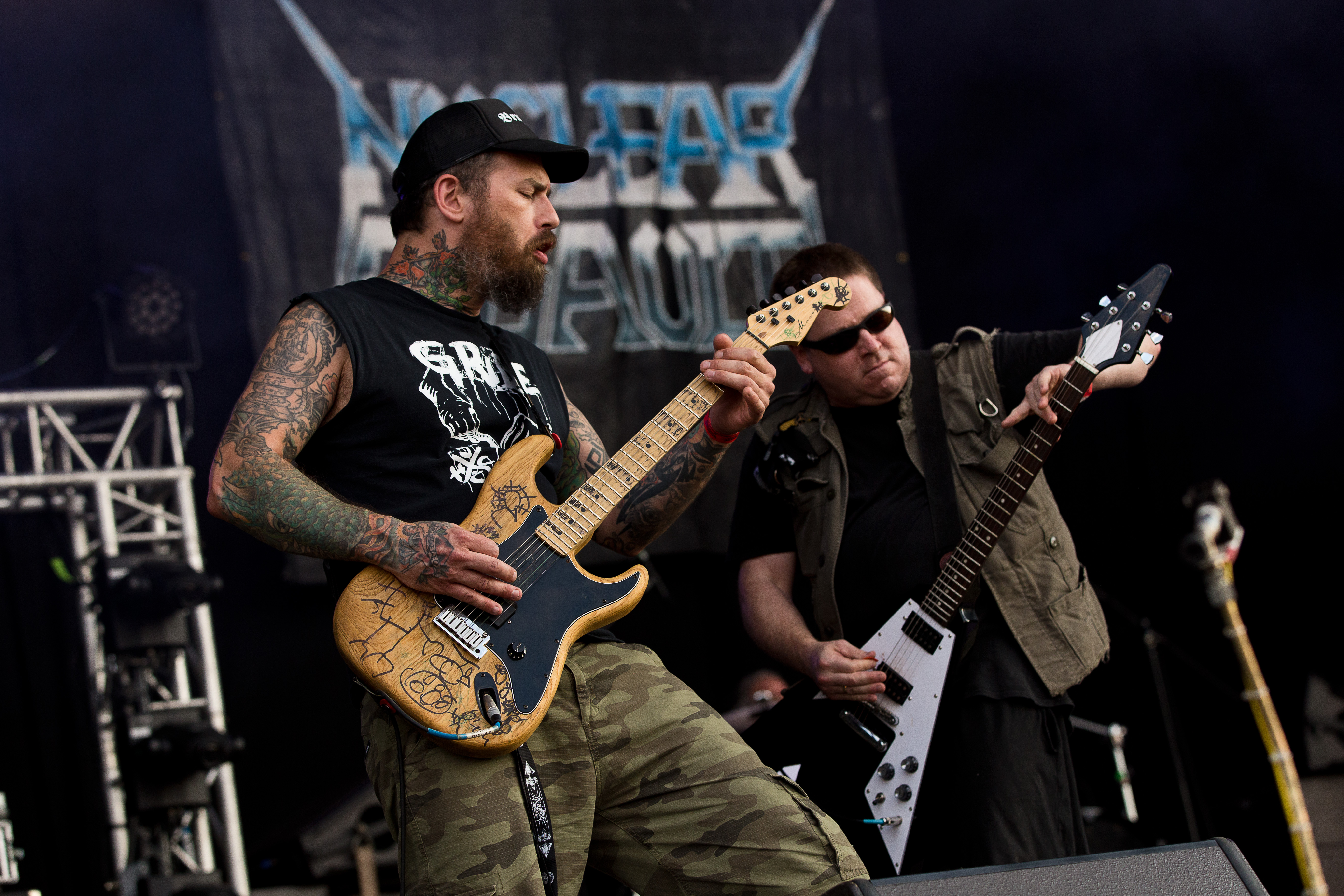 The US thrash metal band Nuclear Assault at the Party.San Open Air 2015 in Obermehler-Schlotheim/Germany.